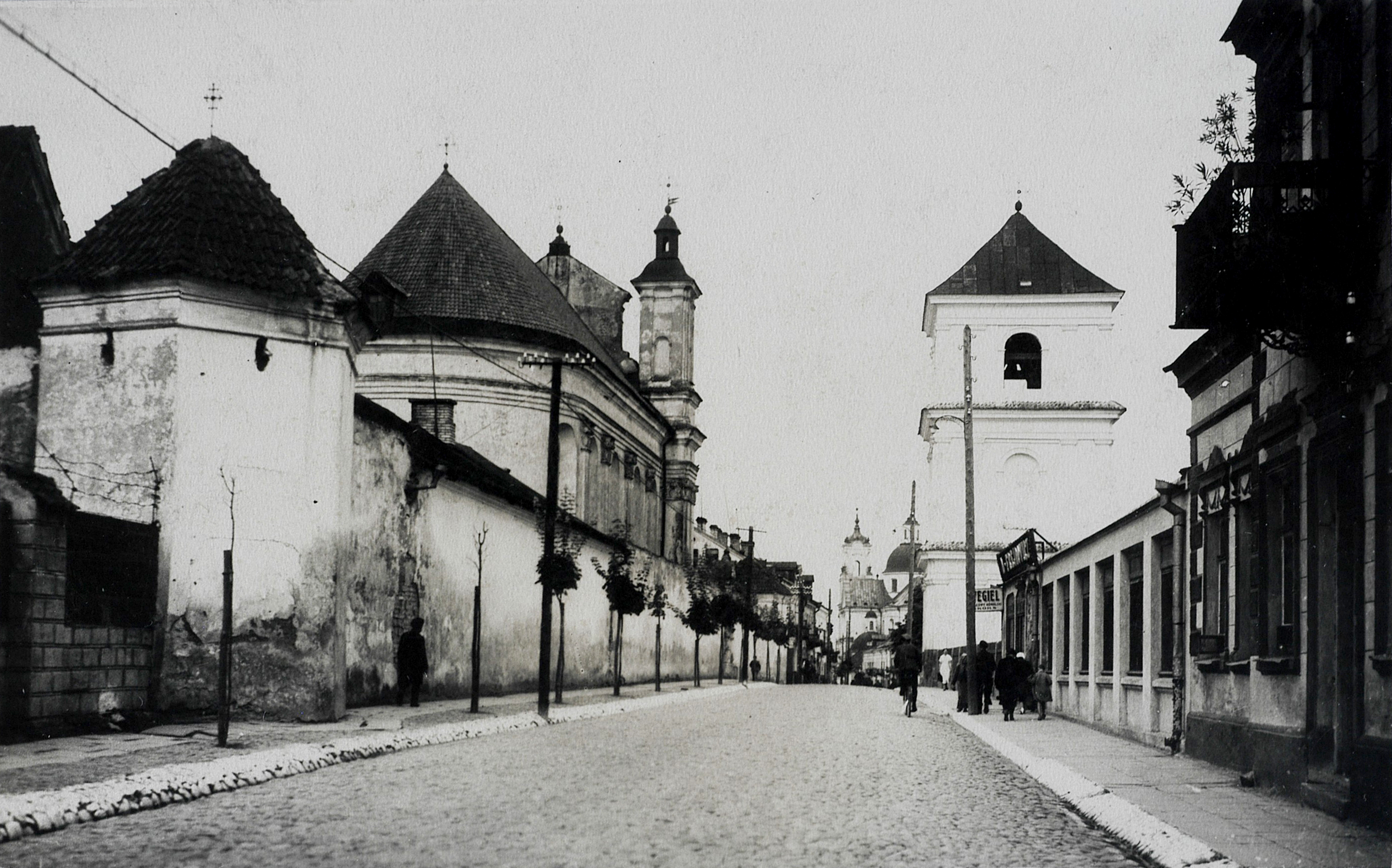 Brygidzkaja Street in Horadnia